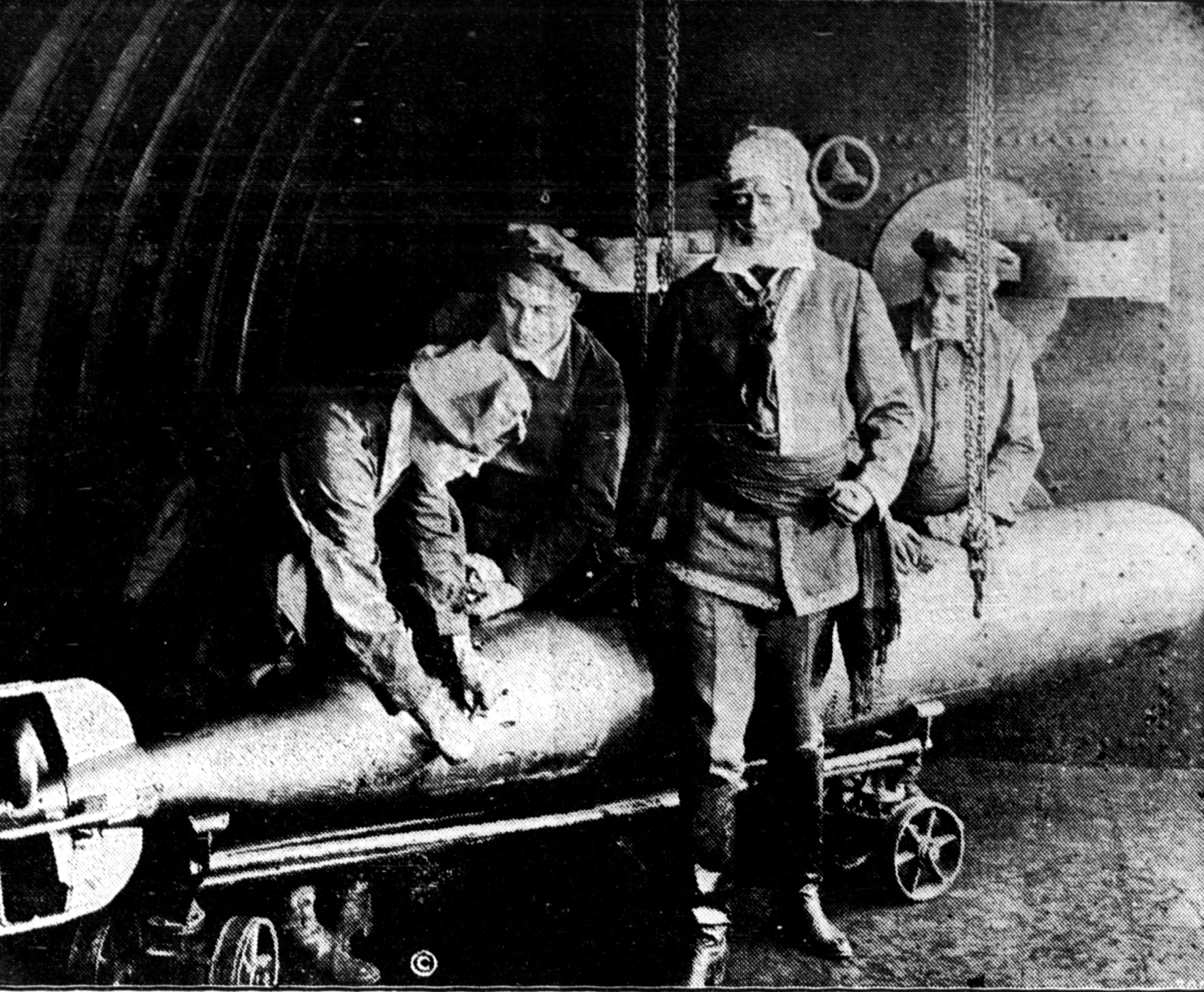 20,000 Leagues Under the Sea is a 1916 silent film directed by Stuart Paton. This is a scene from the film published in a newspaper.